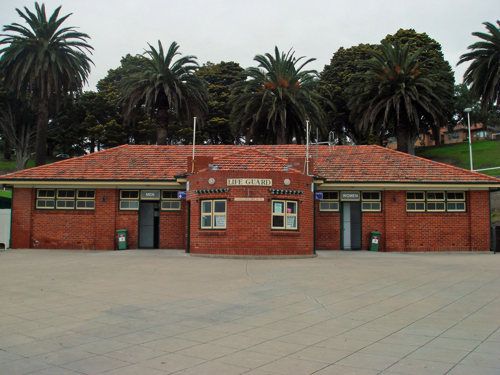 eastern beach pavilion - geelong Victoria AustraliaDSC01361